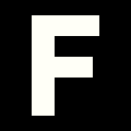 Symbol: White F on black rectangle